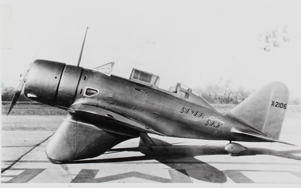 PictionID:41566206 - Title:Seversky SEV-3L converted in 1934 to 350 hp Wright R-975E with a faired landing gear, then SEV-3XAR, X-2106 to win the Air Corps' BT-8 contract - Catalog:15_002859 - Filename:15_002859.TIF - Image from the Charles Daniels Photo Collection album "Seversky, Republic and P-47"----PLEASE TAG this image with any information you know about it, so that we can permanently store this data with the original image file in our Digital Asset Management System.----SOURCE INSTITUTION: San Diego Air and Space Museum Archive